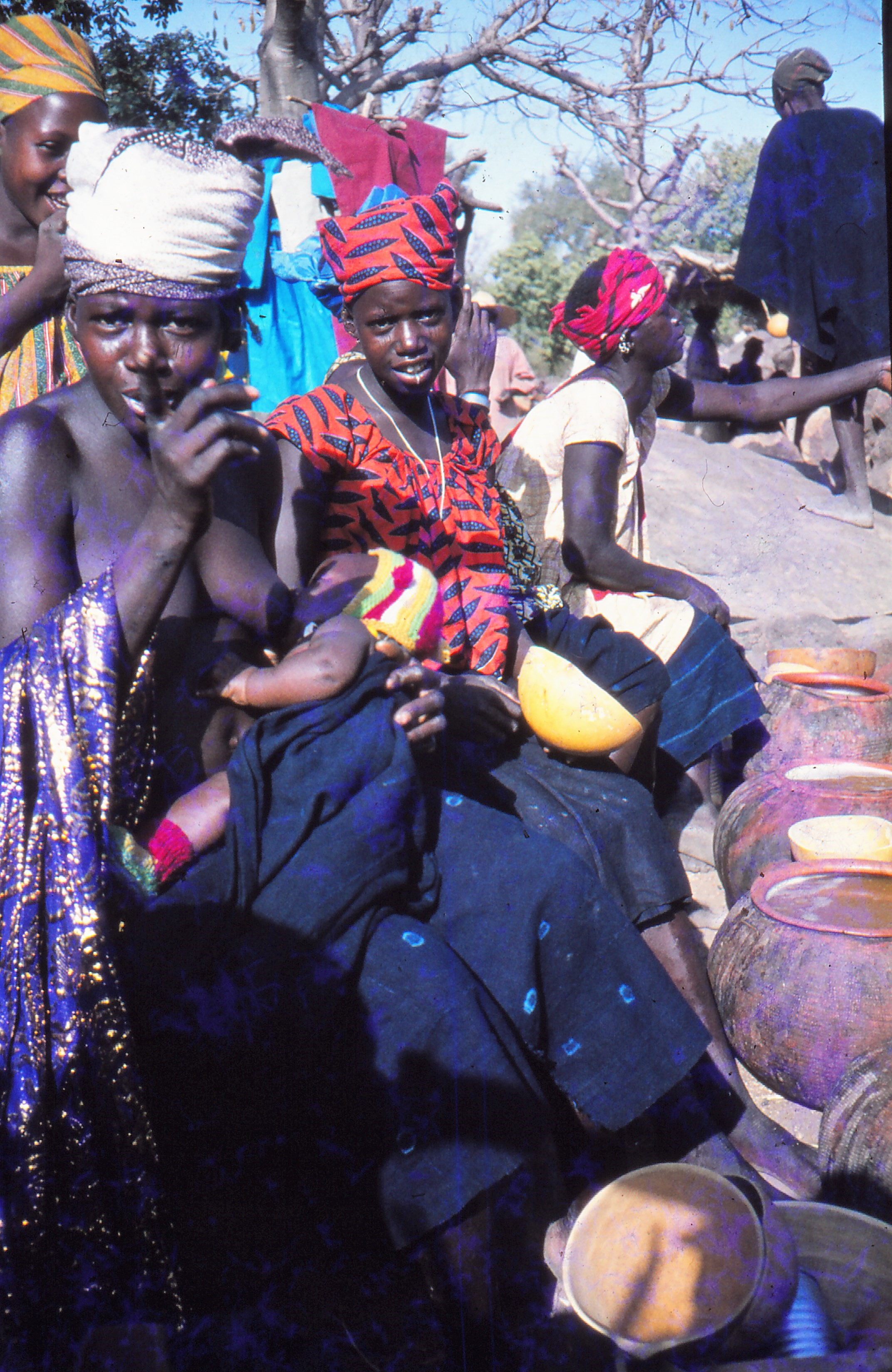 Women selling their beer warn the photographer that he also has to buy some, Tireli, Mali 1989